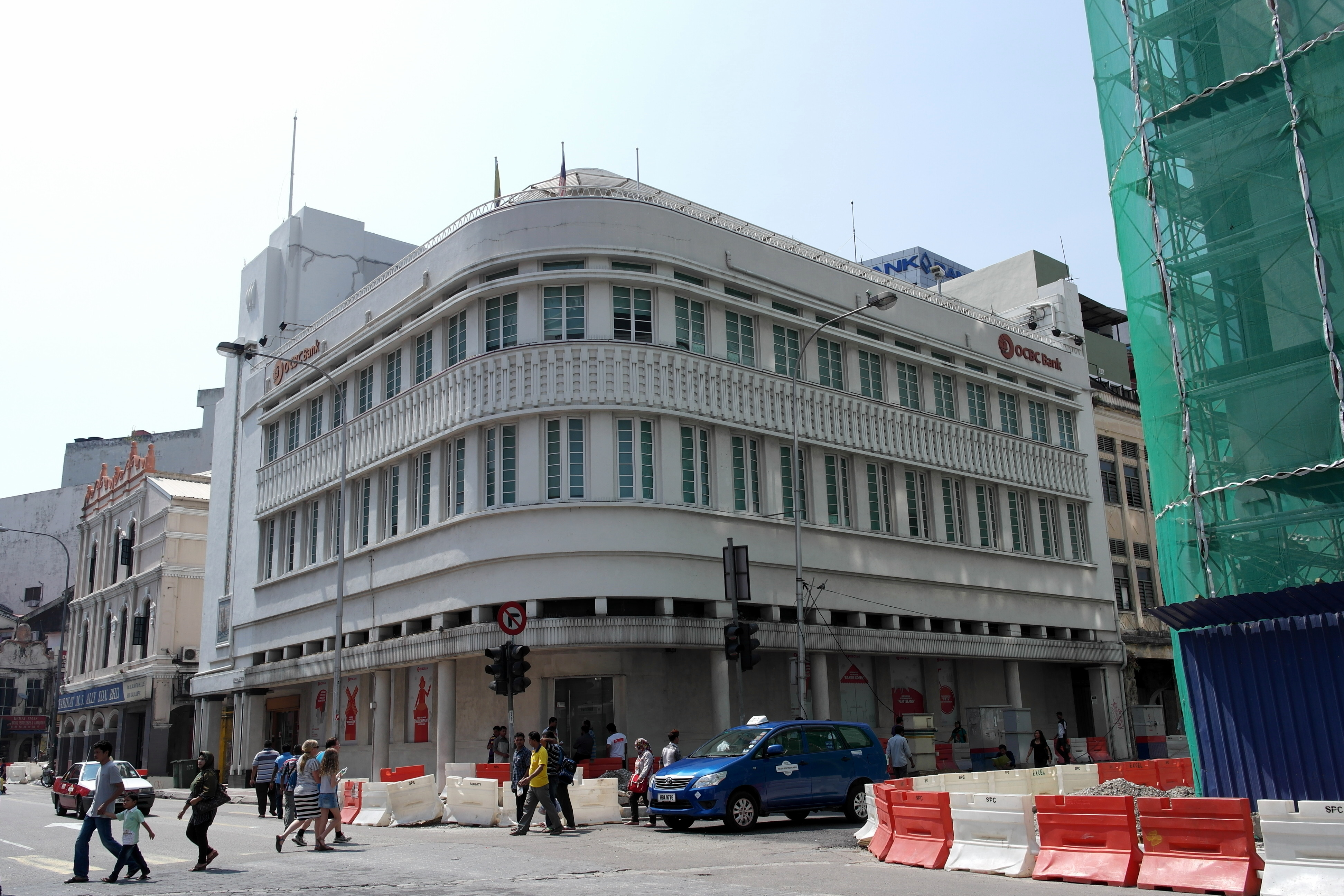 OCBC Building, Kuala Lumpur